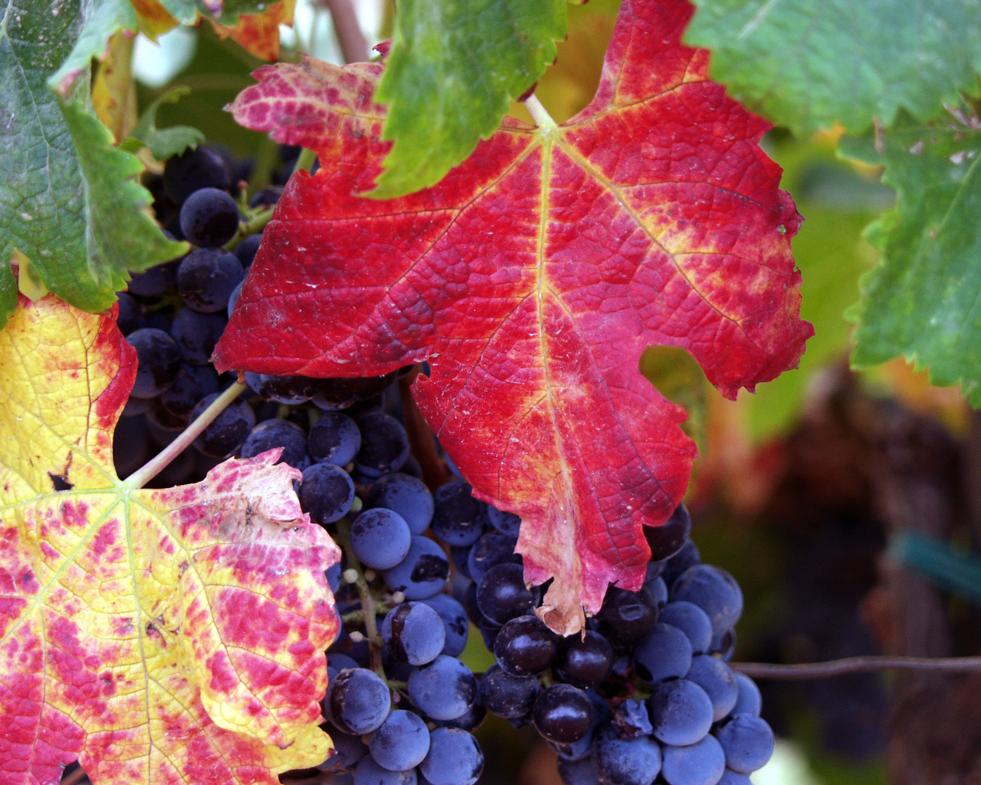 Grapes from the Guadalupe Valley, Ensenada, Baja California, Mexico